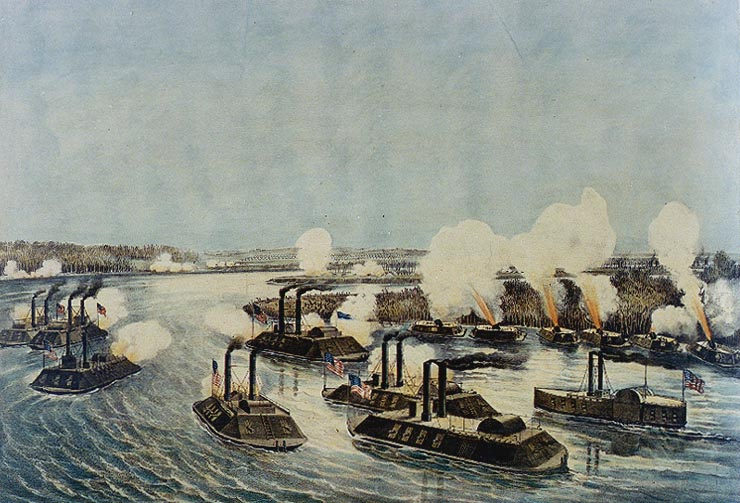 Bombardment and Capture of Island Number Ten on the Mississippi River, April 7, 1862 Colored lithograph published by Currier & Ives, New York, circa 1862. It depicts the bombardment of the Confederate fortifications on Island Number Ten by Federal gunboats and mortar boats. Ships seen include (from left to right): Mound City, Louisville, USS Pittsburg, Carondelet, Flagship Benton, Cincinnati, Saint Louis and Conestoga (timberclad). Mortar boats are firing from along the river bank.